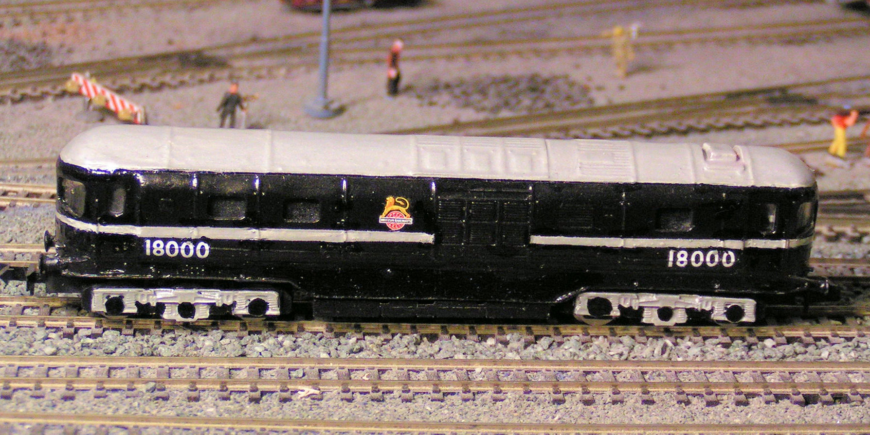 N scale metal kit body representing British Rail 18000 which was a prototype mainline Gas turbine-electric locomotive built for British Railways in 1949 by Brown Boveri. It was ordered by the Great Western Railway in 1940, but construction was delayed due to World War II. It spent its working life operating express passenger services. Annoyingly, I fixed the roof on back-to-front, but as the prototype is so rare, no-one ever knows! One day I may get around to fixing it!